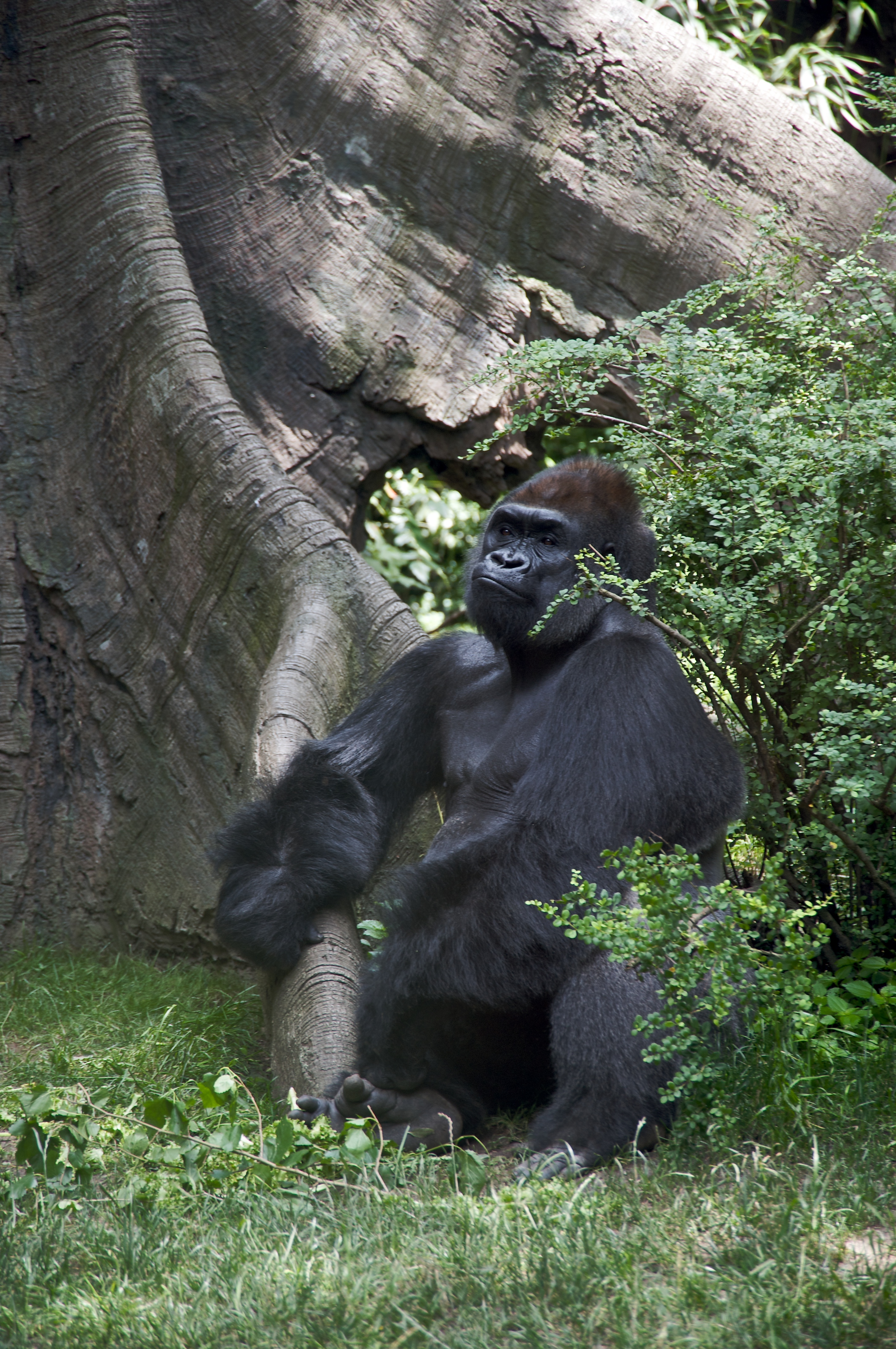 Western Lowland Gorilla at the Bronx Zoo